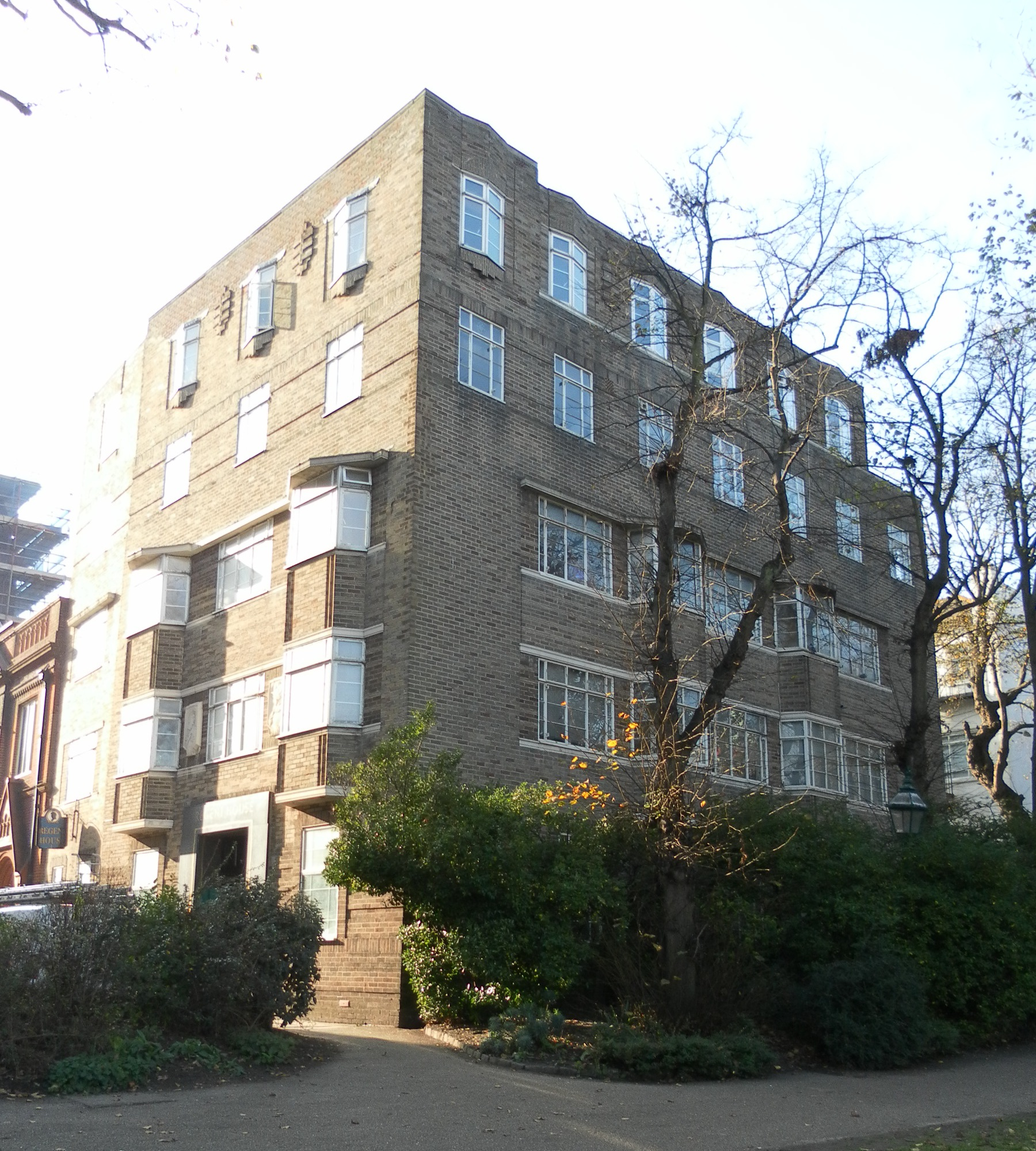 Regent House, Prince's Place, Brighton, City of Brighton and Hove, England. Designed in 1934 by John Leopold Denman as offices.